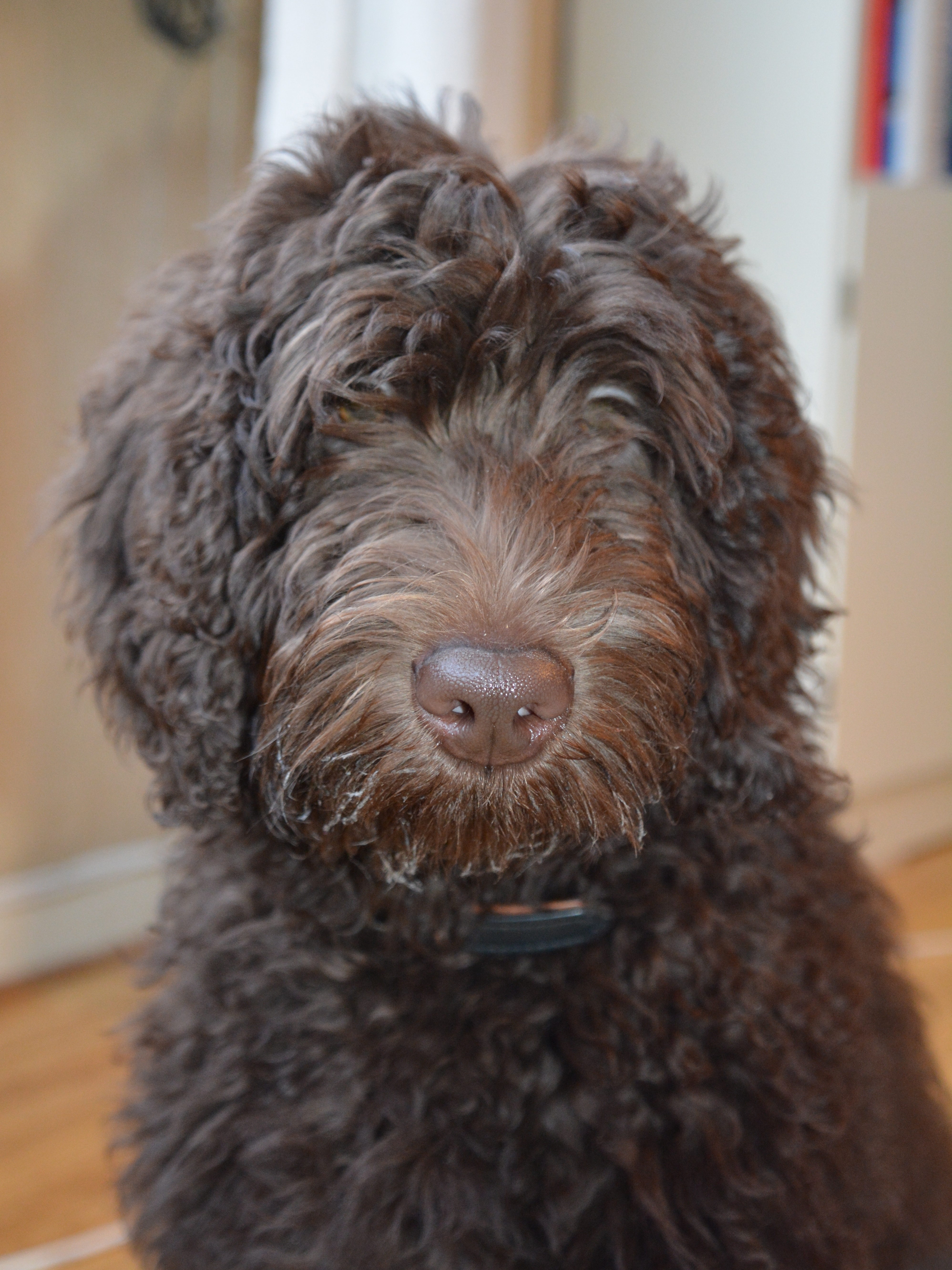 "Dugga", labradoodle, 4 månader gammal tik.